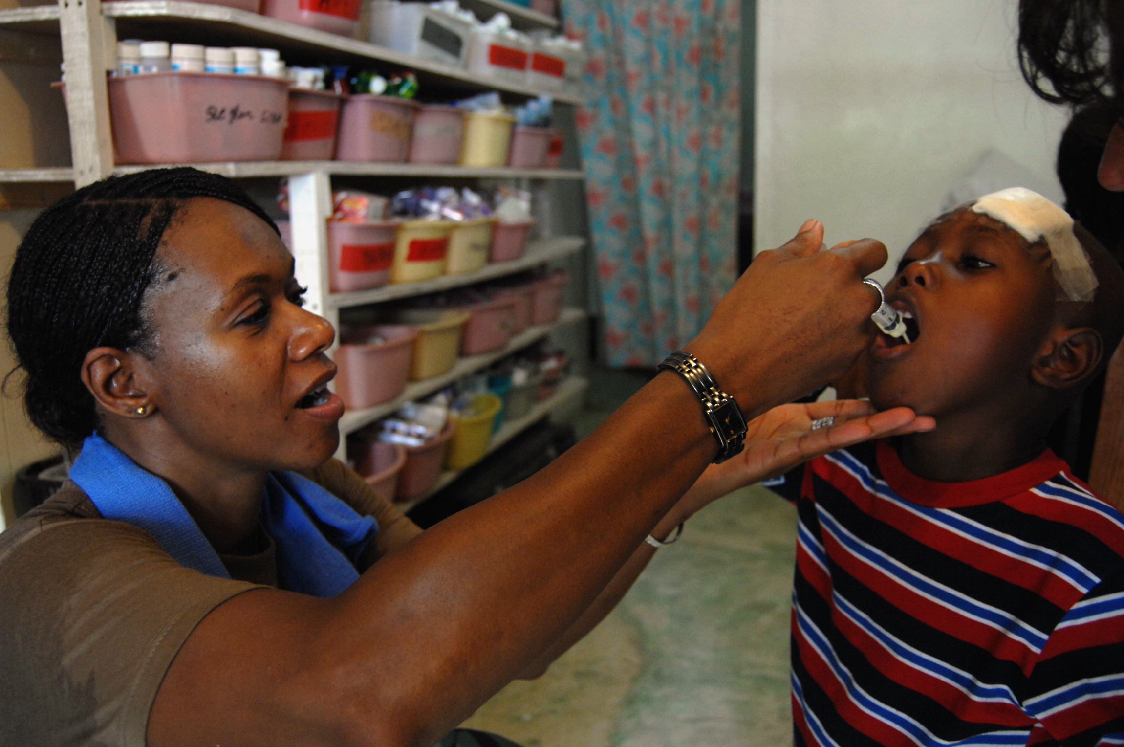 CAZALE, Haiti (Sept. 23, 2008) Lt. Pandora Liptrot, a Navy Nurse Corps officer embarked aboard the amphibious assault ship USS Kearsarge (LHD 3) gives deworming medication to a child at the Center of the Grace of Good Samaritan Orphanage. Kearsarge has embarked U.S. service members from all military branches and a multinational group of medical and support personnel. (U.S. Navy photo by Mass Communication Specialist 3rd Class Maddelin Angebrand/Released)